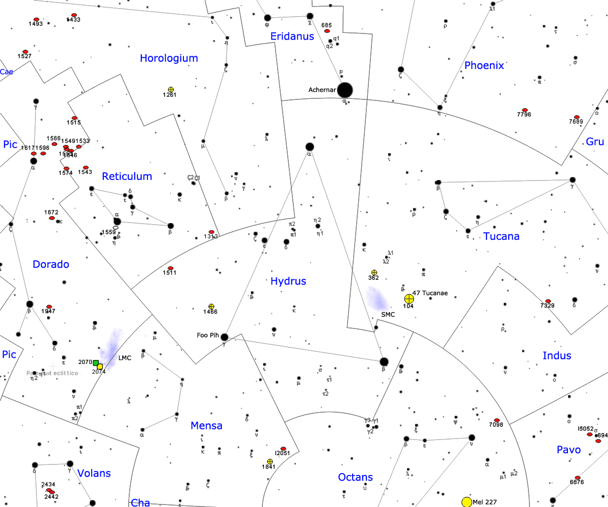 Map of Hydrus